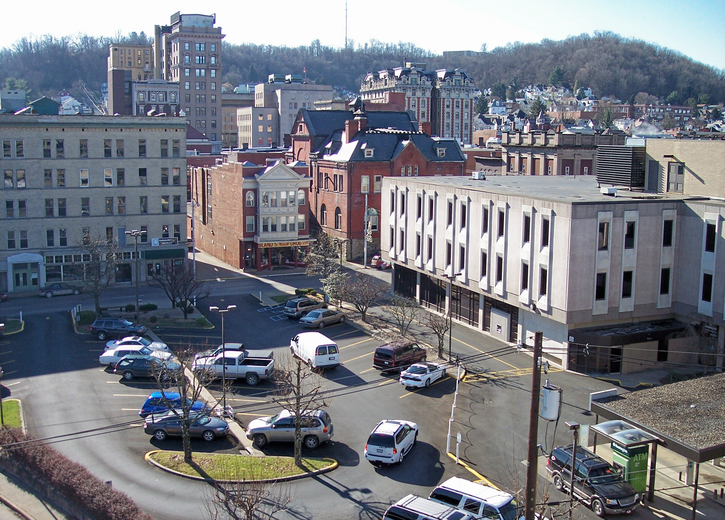 Downtown Clarksburg, West Virginia as viewed from atop a parking ramp on the north edge of downtown